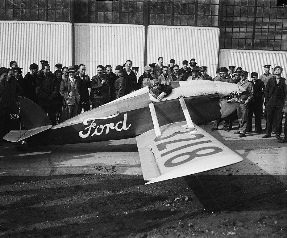 [Ford airplane, flivver]